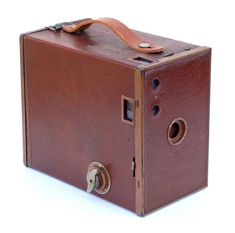 Kodak made the 2A Brownie models from 1907 to 1933. Although the last one was produced some 75 years ago, they are still very commonly seen, as you'd expect from a camera with a 27-year production run. Earlier models had cardboard bodies, while later models had aluminum bodies and were available in several colors, like the lovely brown Model C shown here. This camera came to me as a bonus when buying another camera.